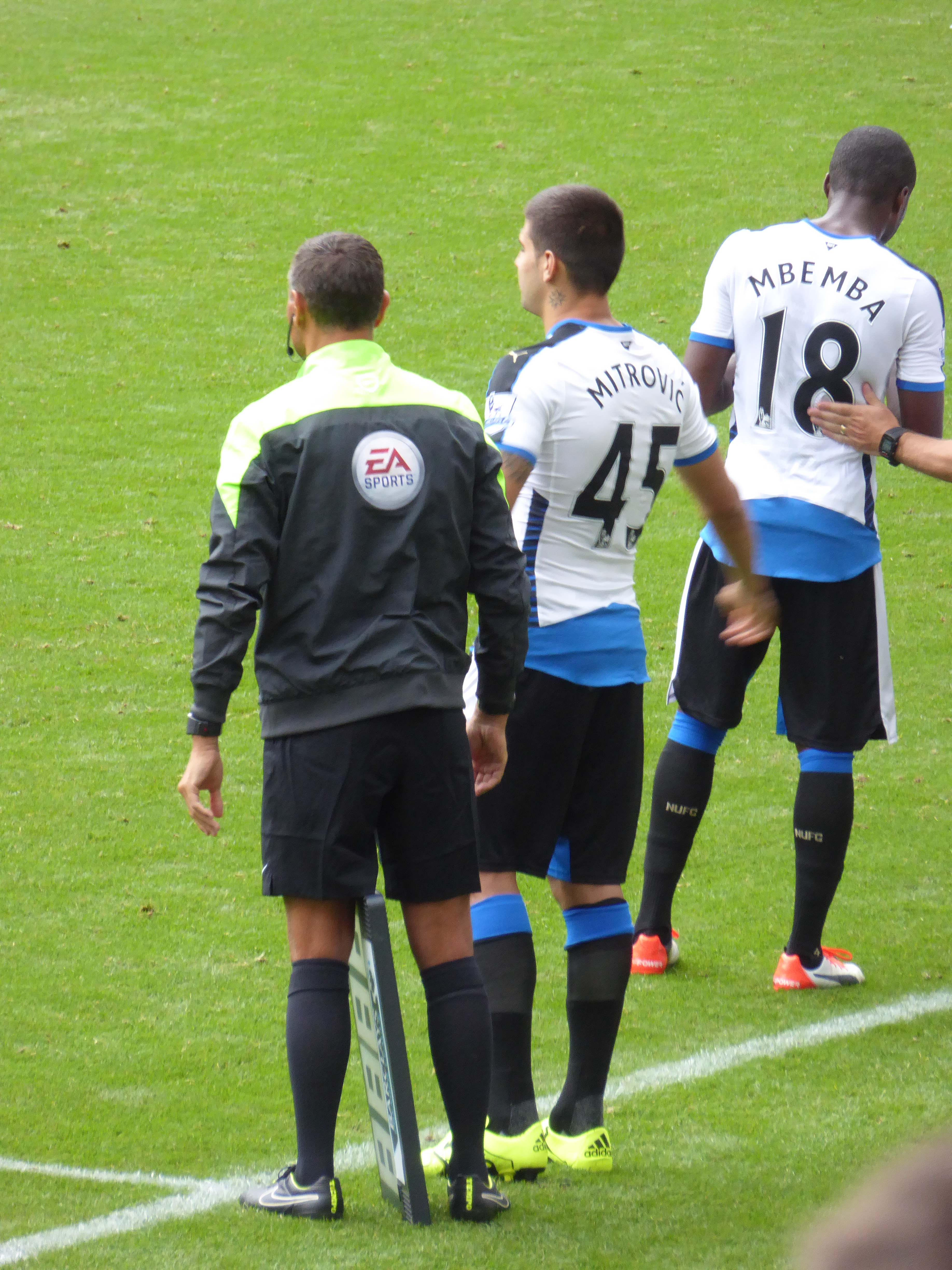 Newcastle United vs Southampton (2-2), St James' Park, Newcastle upon Tyne, Tyne and Wear, England, August 2015. Aleksandar Mitrovic debut.